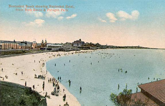 Nantasket Beach showing Nantasket Hotel, State Bath House & Paragon Park; from a c. 1910 postcard.